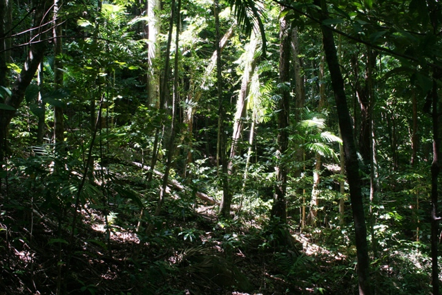 Dunk Island rainforest, Queensland, Australia. Less than three months before the tropical cyclone Larry.